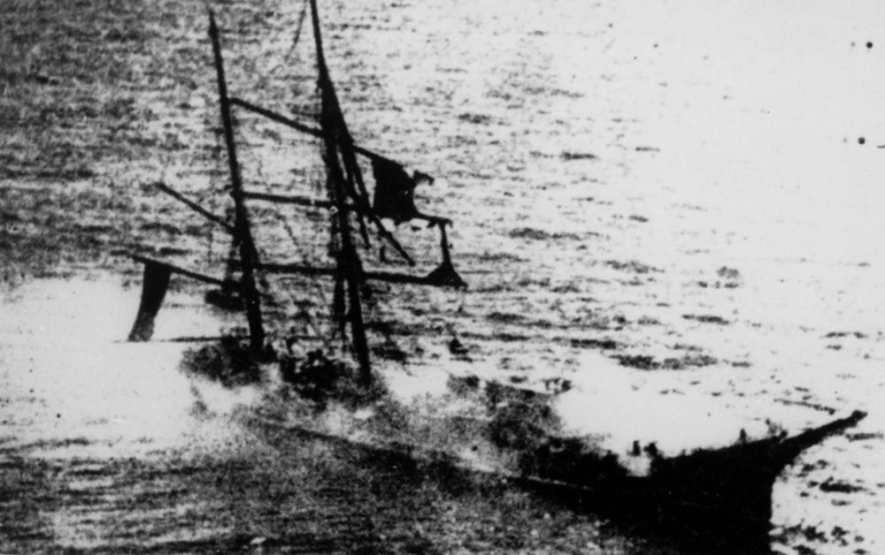 The „Lautaro“ ex „Priwall“ on February 28th 1945, lost by fire, north of Iquique, loaded with nitrate. Nineteen officers and men lost.